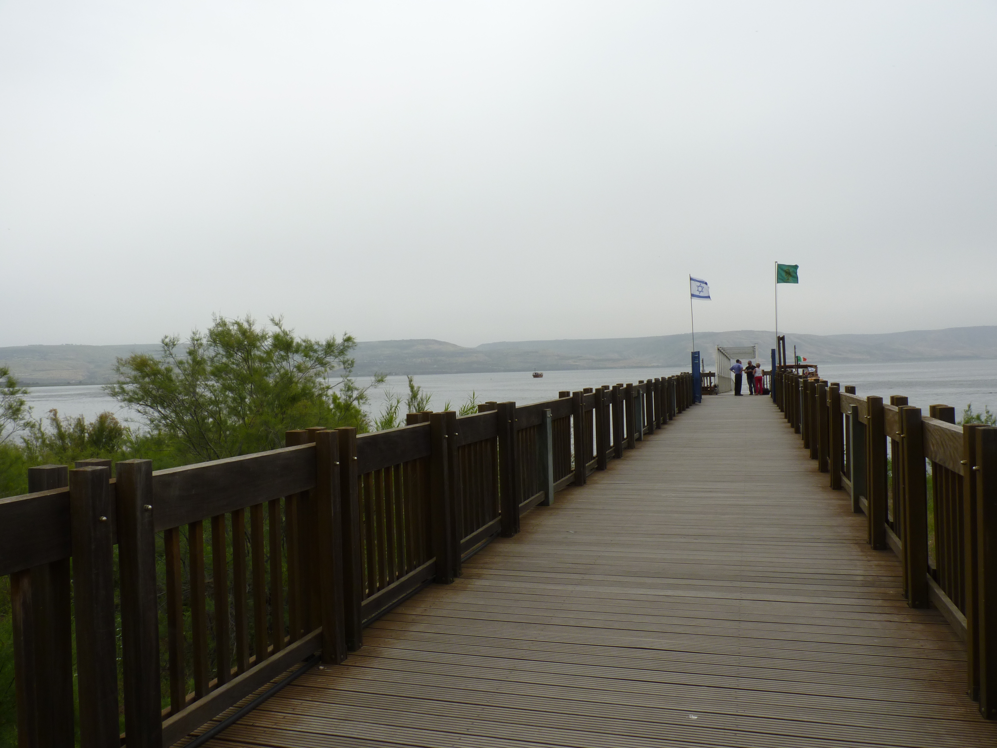 P1120188 Kfar Naum (Capernaum). National park and remains of a fishing village from the time of the Second Temple, on a site that was the focus of Jesus’ Galilee ministry The antiquities are under the aegis of the Franciscan Church. The national park around the antiquities site is under the aegis of the Israel Nature and Parks Authority.